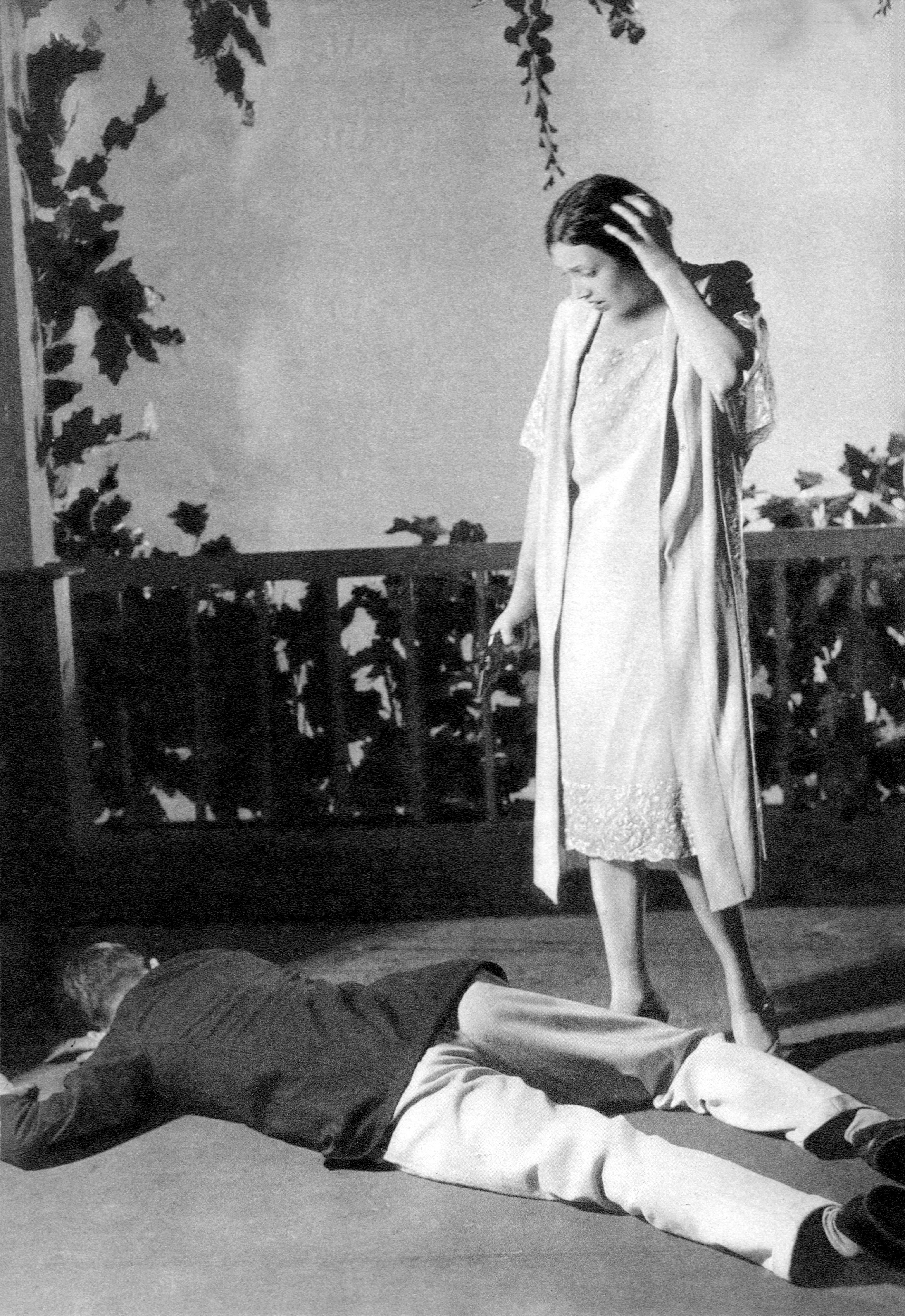 Photograph of Katharine Cornell standing over Burton McEvilly in the Broadway production of The Letter